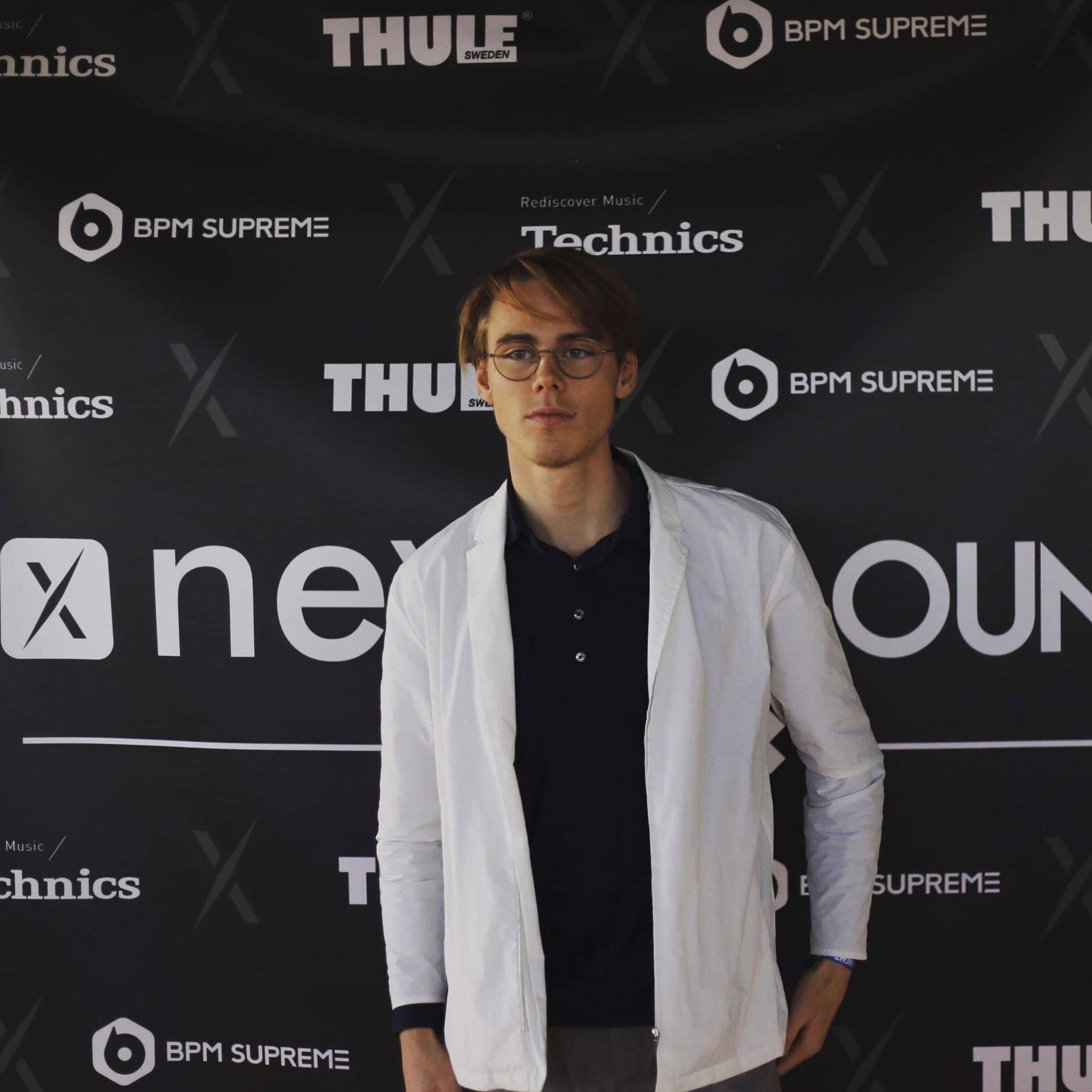 Portrait of Swedish DJ OLWIK, taken at Amsterdam Dance Event 2018 by photographer Max Van Aalst